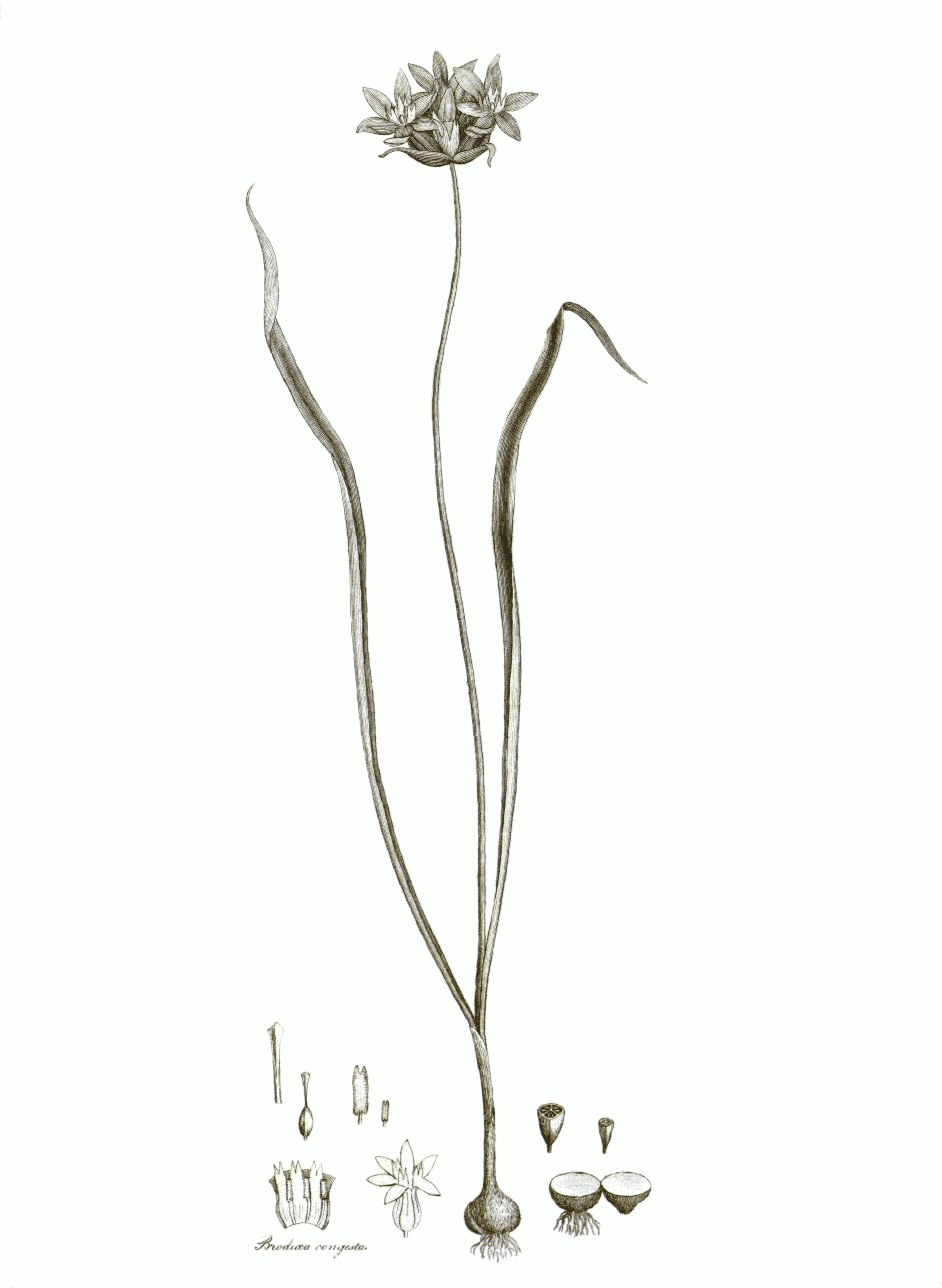 This is Tab. I. from Volume X of Transactions of the Linnean Society of London, published in 1811. The page number has been removed. The plant depicted is Brodiaea congesta, now known as Dichelostemma congestum.